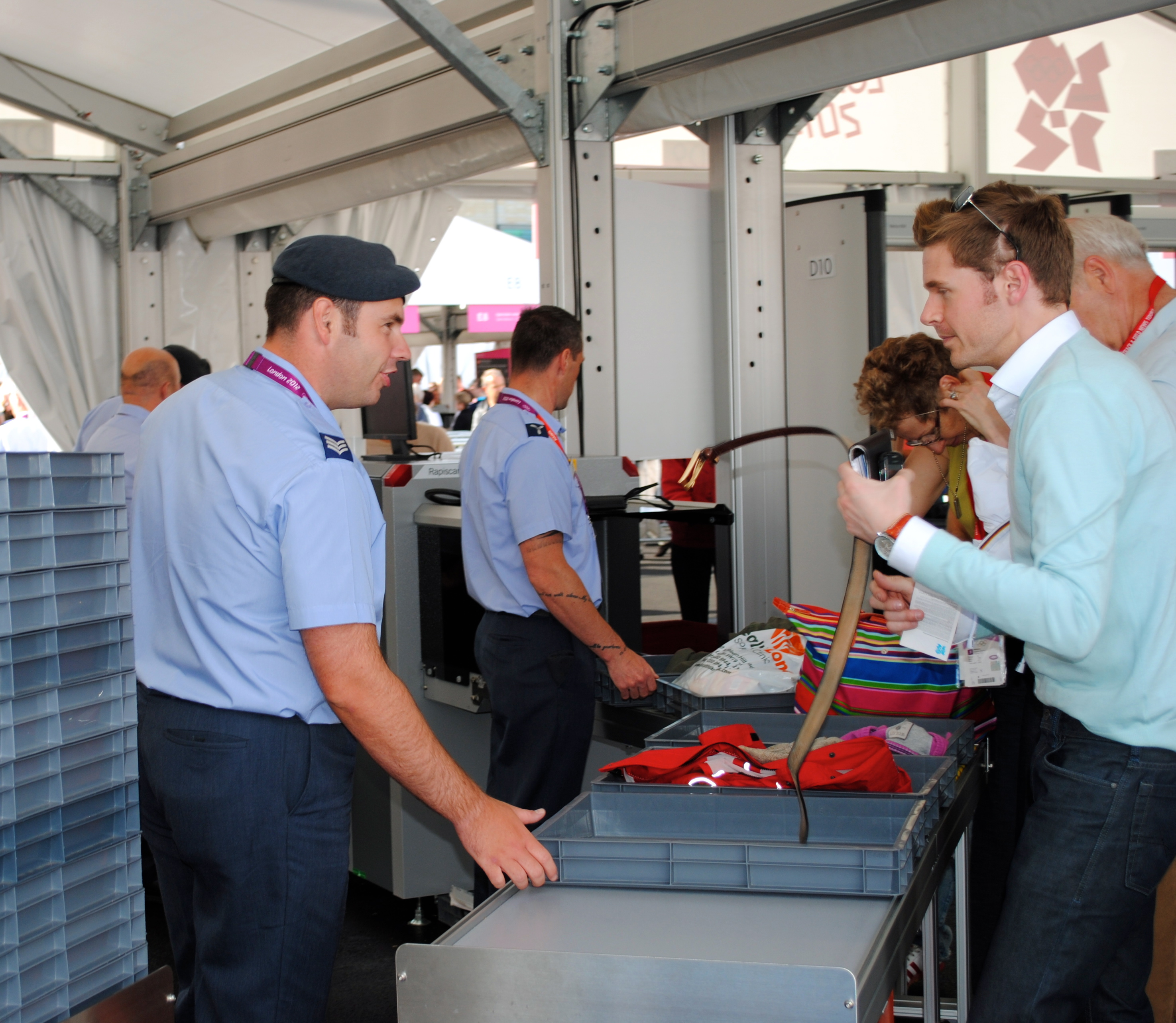 Security check, Olympic Park, London